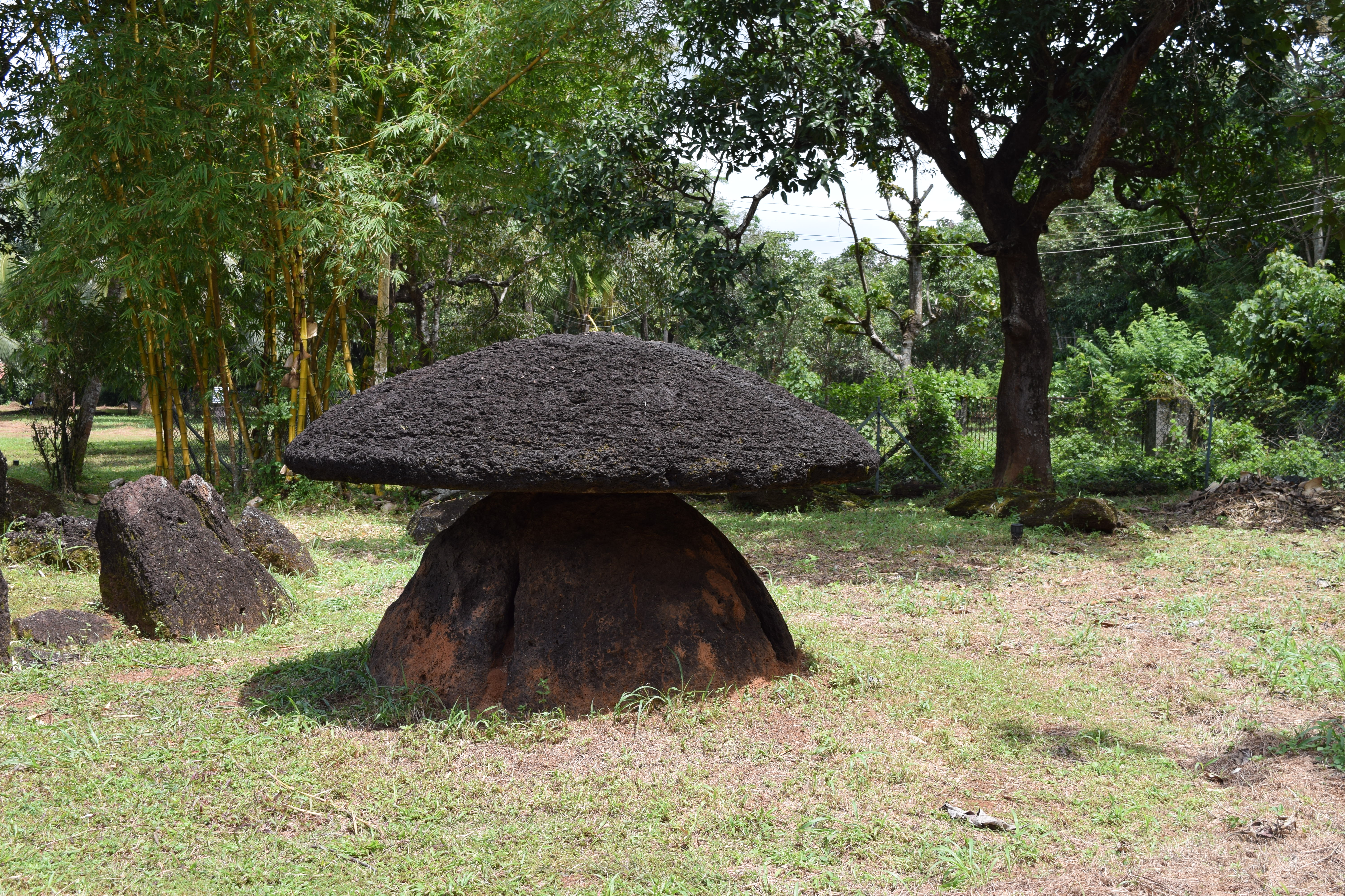 Kudakkallu Parambu, a prehistoric Megalith burial site situated in Chermanangad of Thrissur District of Kerala